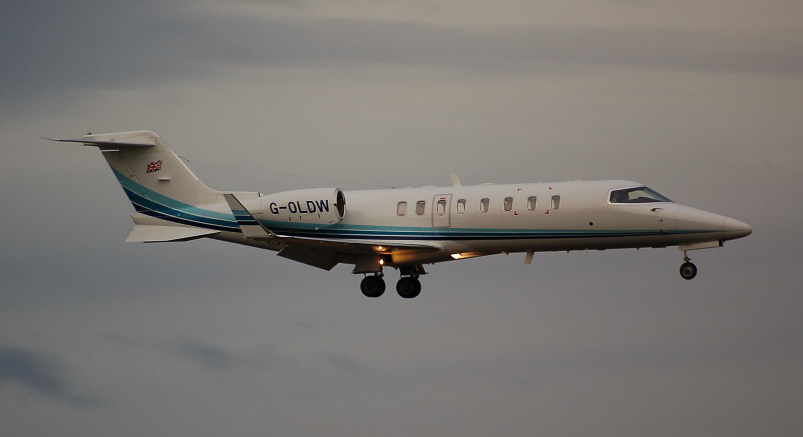 AIR PARTNER PRIVATE JETS LTD LEARJET 45 egph 09/12/07; tail number O-LDW